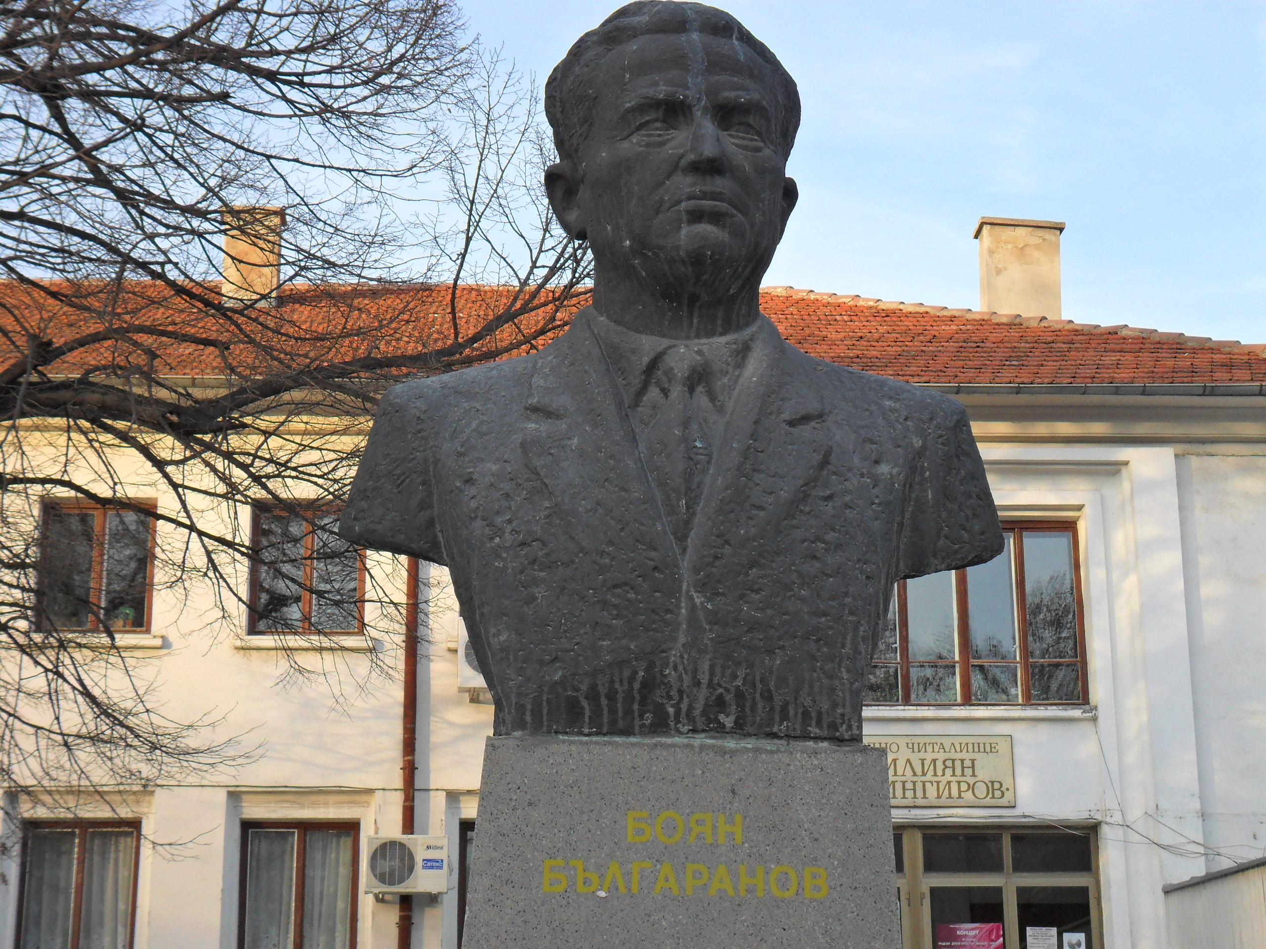 Bust-monument of Boyan Balgaranov